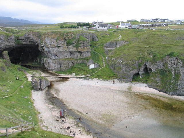 Smoo Cave in Durness, Scotland own photography by Superbass, first uploaded in de.wikipedia 01:43, 15. Aug 2004 . . Superbass (Diskussion)